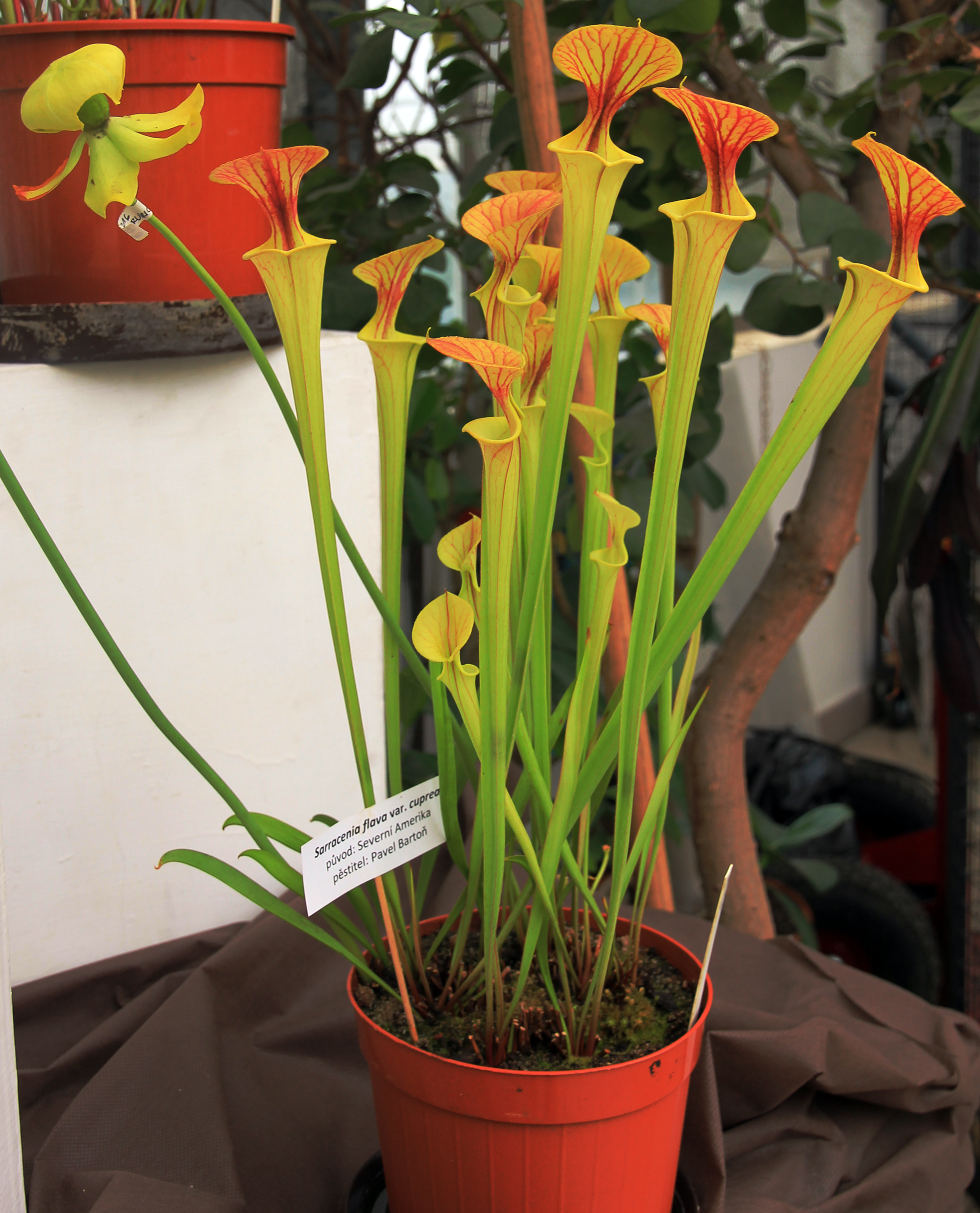 Plant Sarracenia flava on Exhibition of Carnivorous plants in the Botanical Gardens of Charles University, 12.-.21.06.2015 Prague, Czech Republic